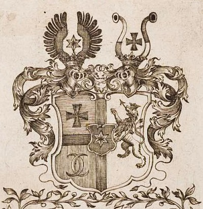 Wappen der deutschen Adelsfamilie von Otten